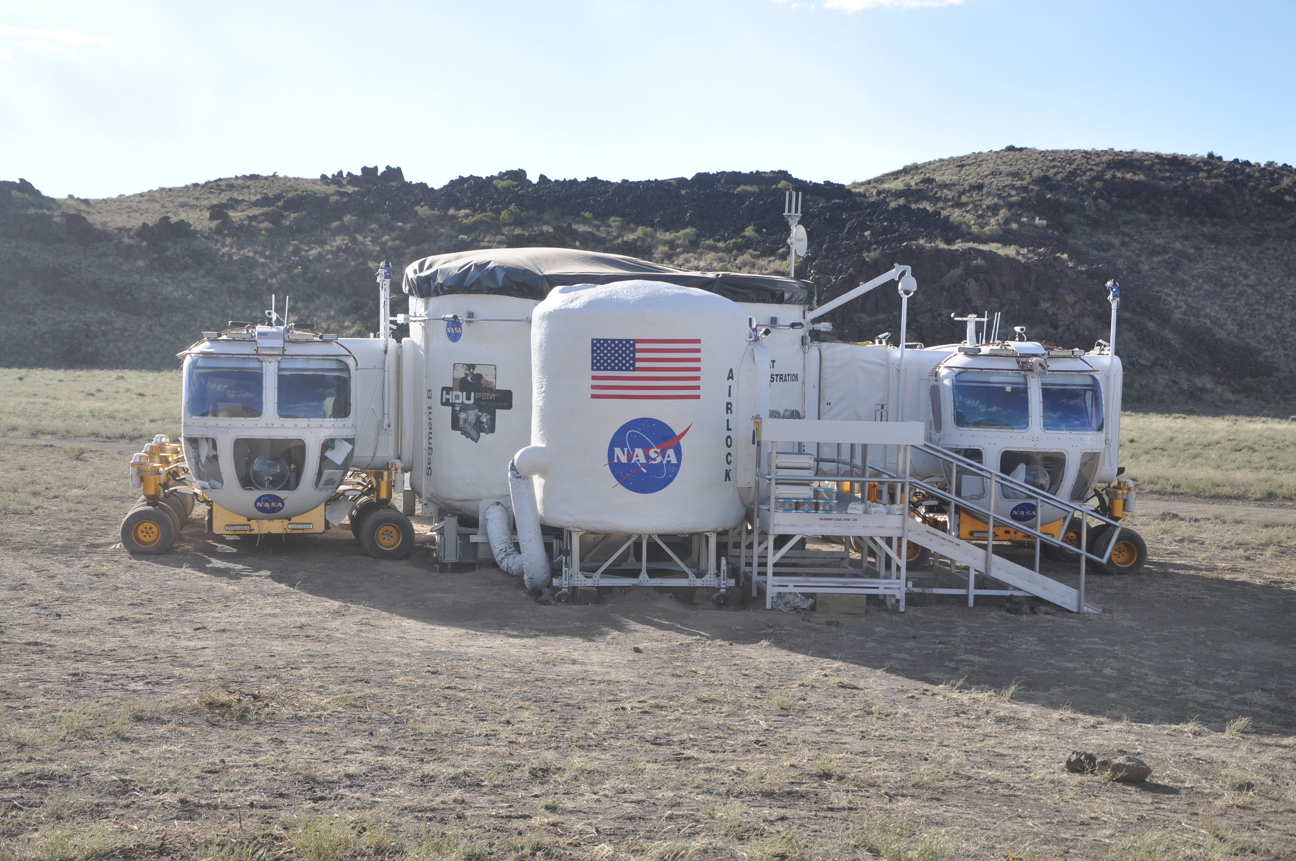 Rovers A & B connected to the Pressurized Excursion Module.